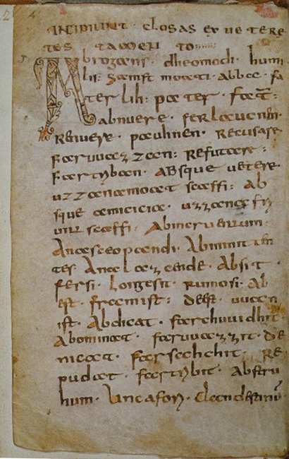 The first page of Abrogans (8th century glossary) in Codex Sangallenis 911